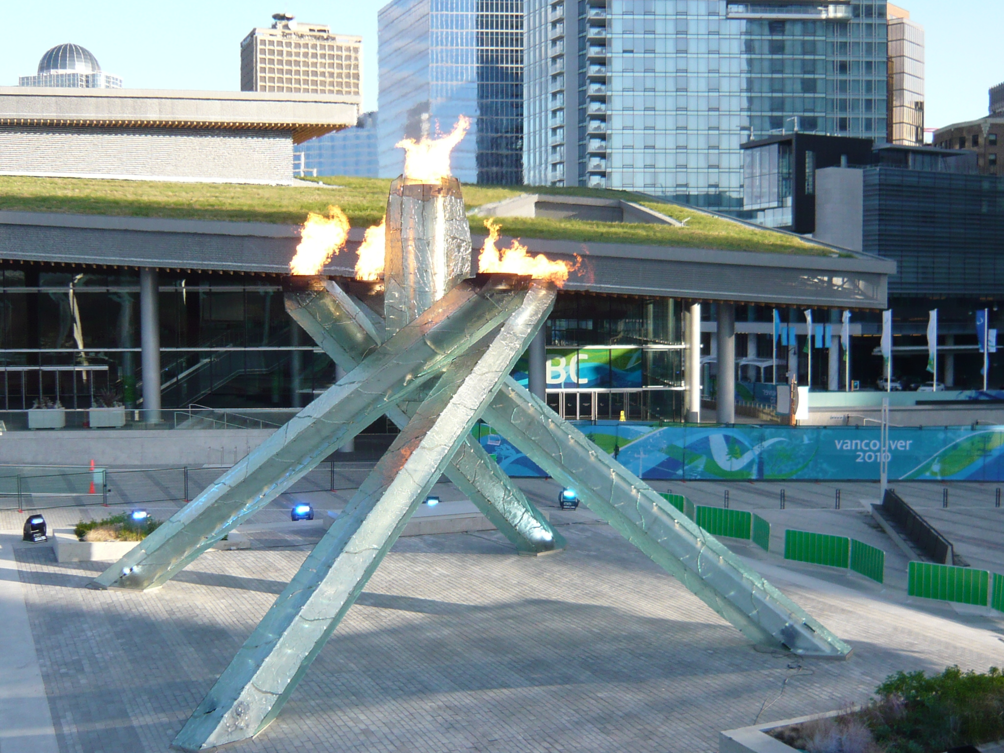 Olympic Flame of Vancouver2010 day time